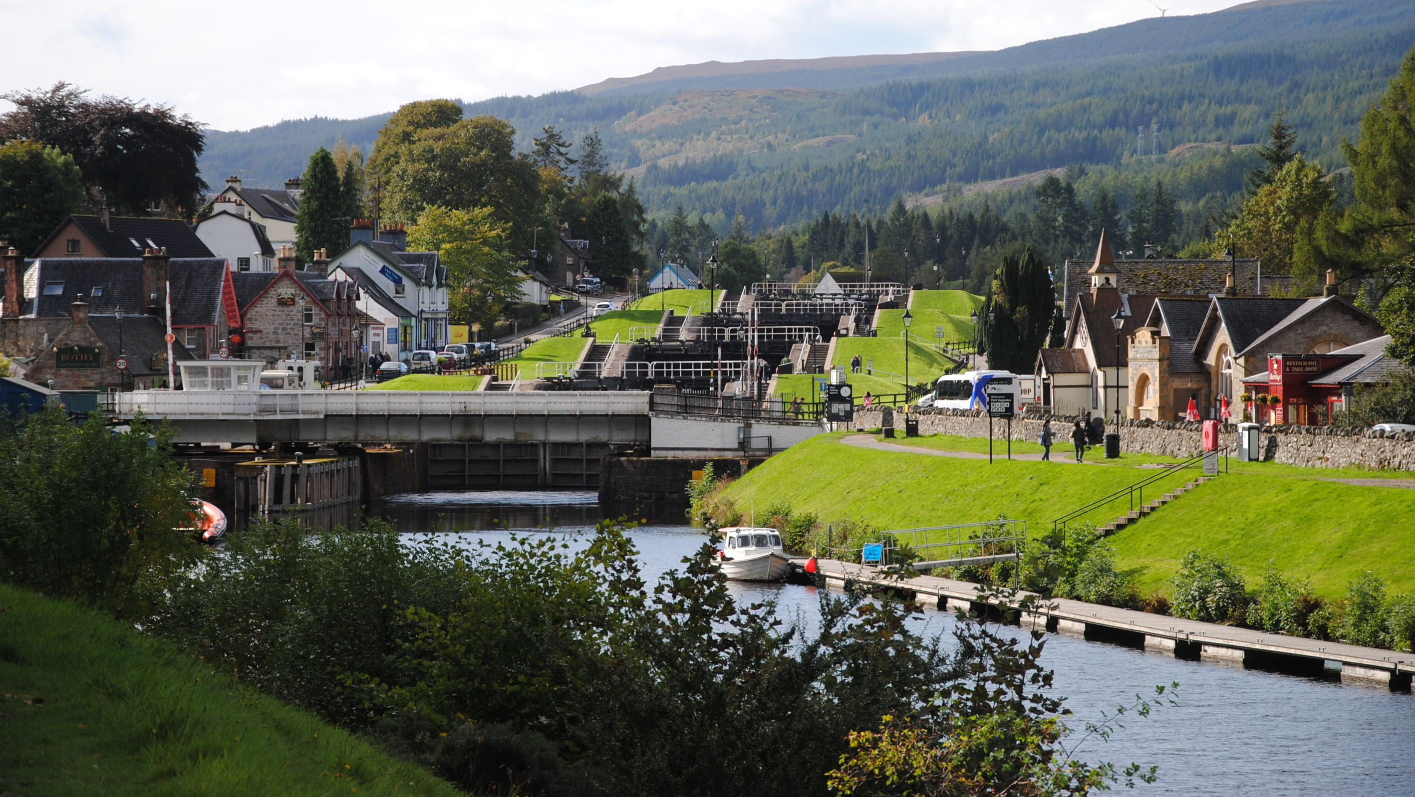 Caledonian Canal, Fort Augustus, Scotland.